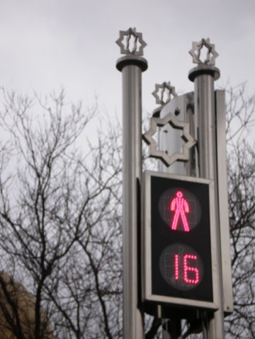 Traffic light